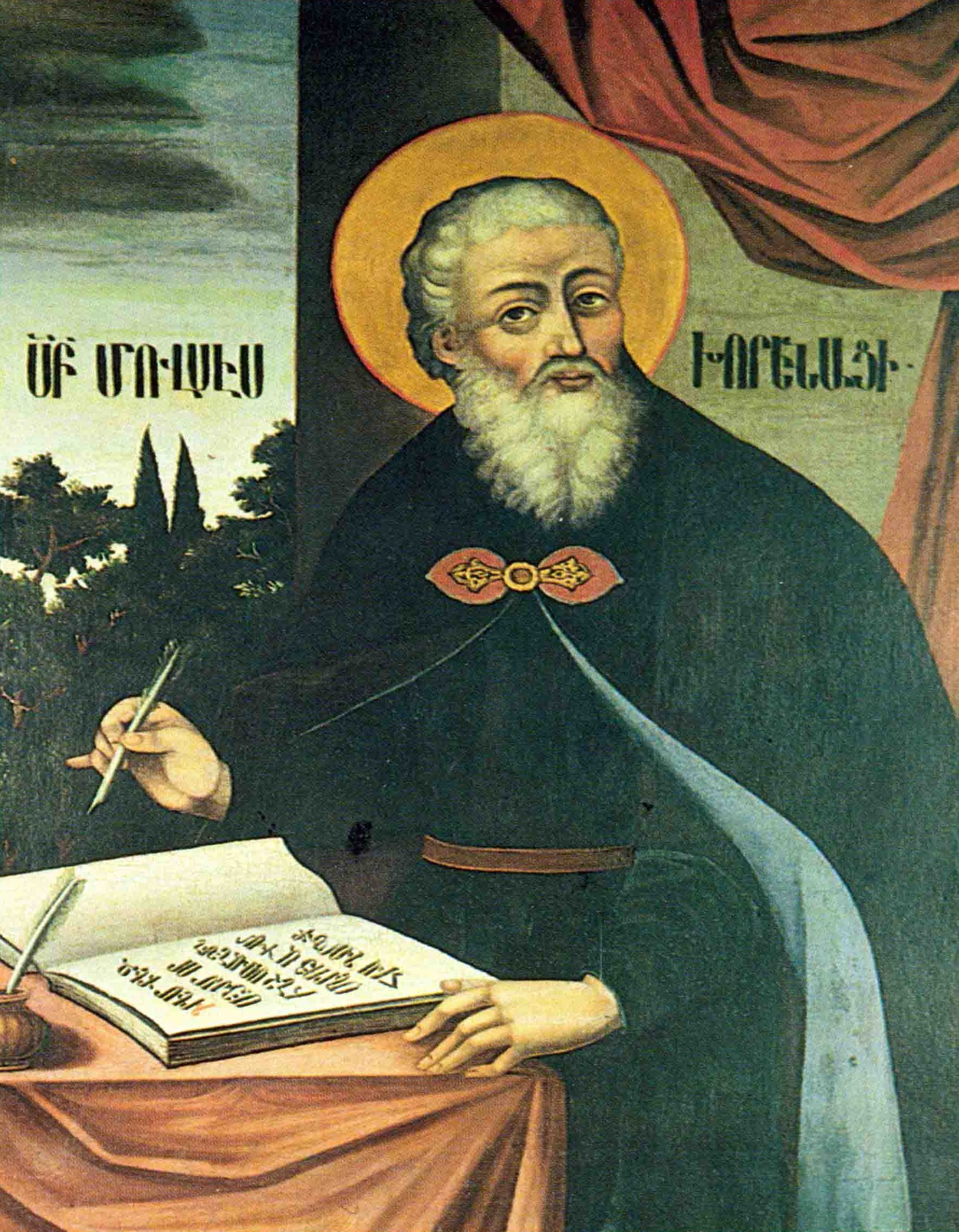 Movses Khorenatsi, an Armenian historian and author of the History of Armenia. He is credited with the earliest known historiographical work on the history of Armenia, but was also a poet, or hymn writer, and a grammarian.